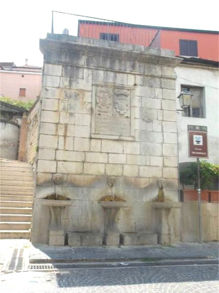 A fountain in San Sossio Baronia, Italy